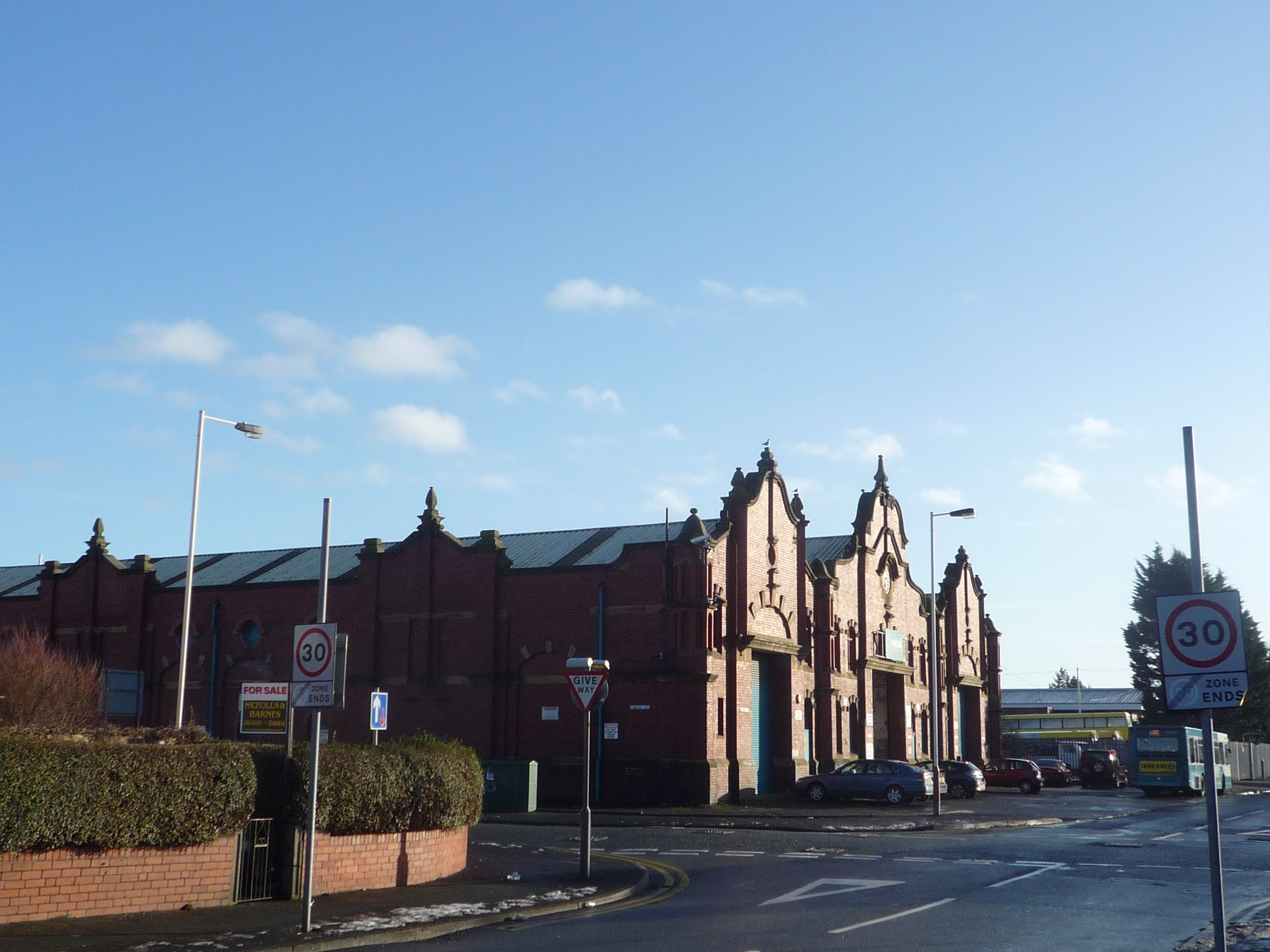 The same scene on 2006 January 11 The bus depot in Blowick, Southport, Lancashire. Seen here looking south east on the west side of Canning Road a few yards north of the junction with Cobden Road.